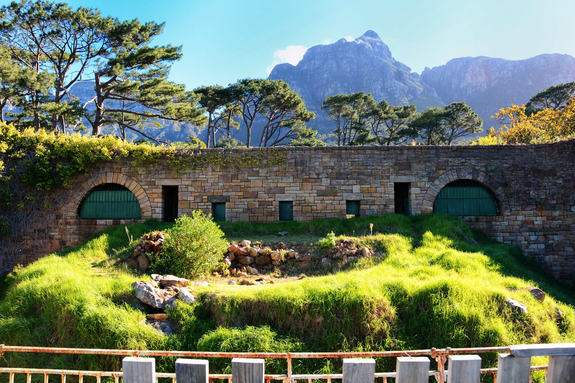 Groote Schuur zoo site, originally established as Rhodes's private zoo. The zoo was closed in the late 1970s, and only the lion's den now remains. Rhodes's Groote Schuur estate nearby is now a South African presidential residence. This media shows a South African Protected Site with SAHRA file reference NEW.